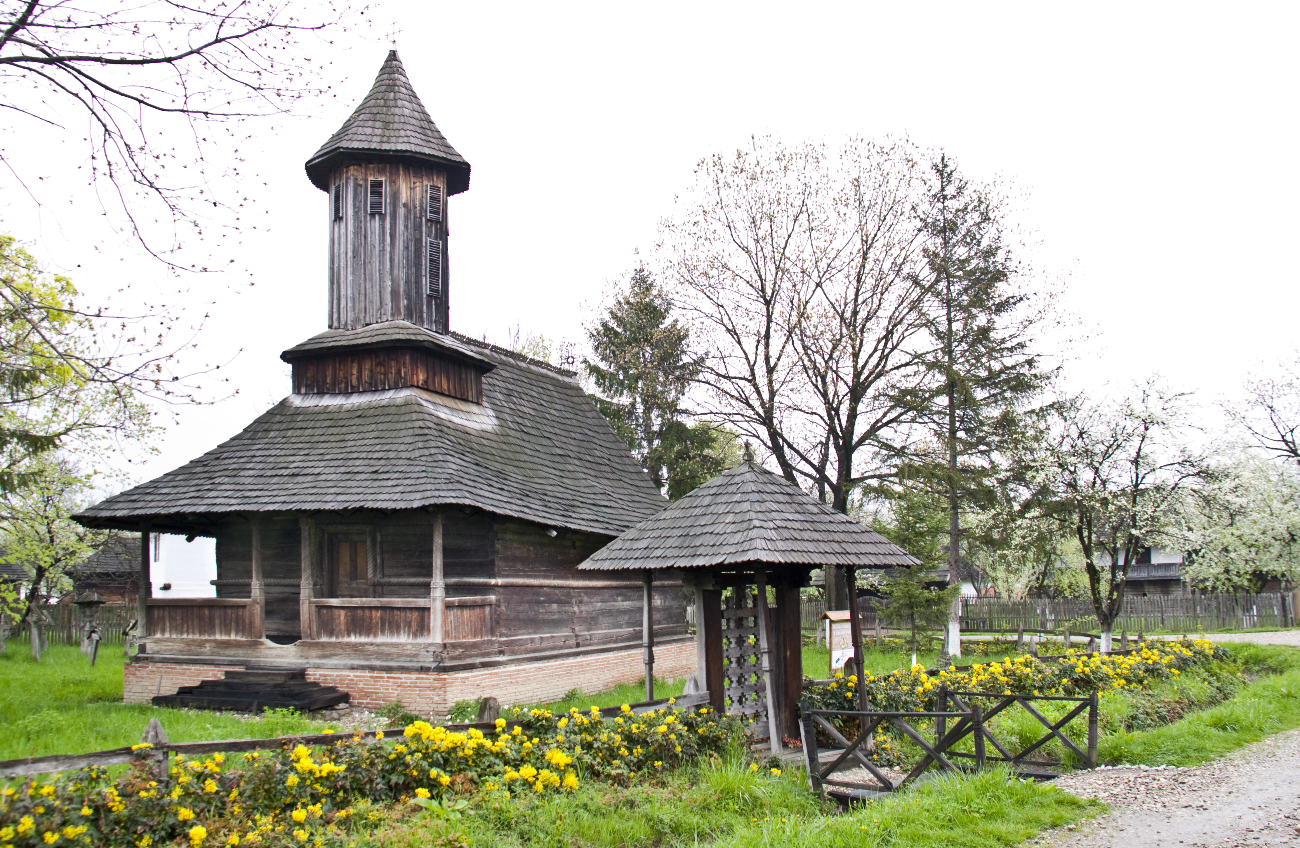 Drăguţeşti in Cotmeana, Argeş county, Romania: the wooden church, at present in the Goleşti Viticulture and Tree Growing Museum.